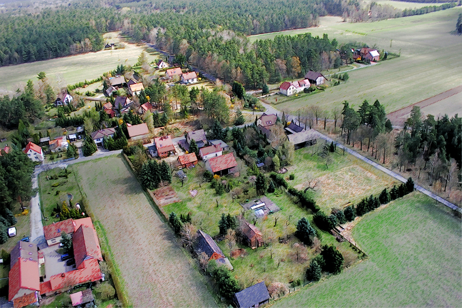 Trebendorf at Saxony in Germany